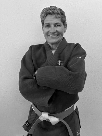 Judoka Grace Jividen poses for a photo in 2015.